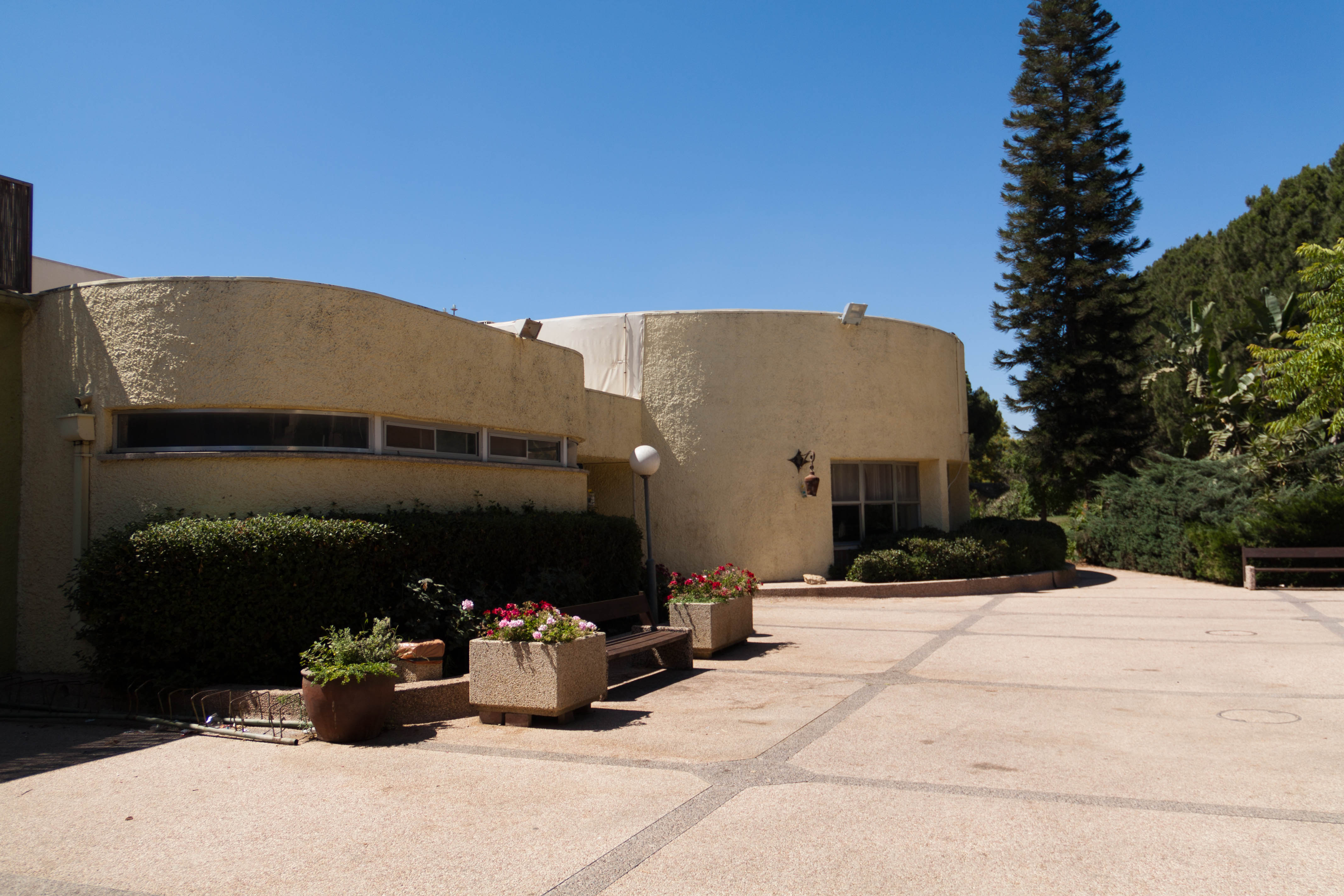 Eyal's dining room